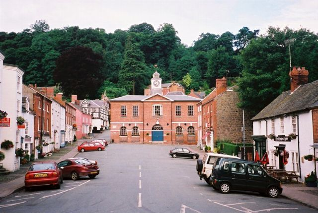 Montgomery Town Hall. A view of Montgomery Town Hall taken during the Foot & Mouth Crisis, everywhere was conspicuously void of tourists.